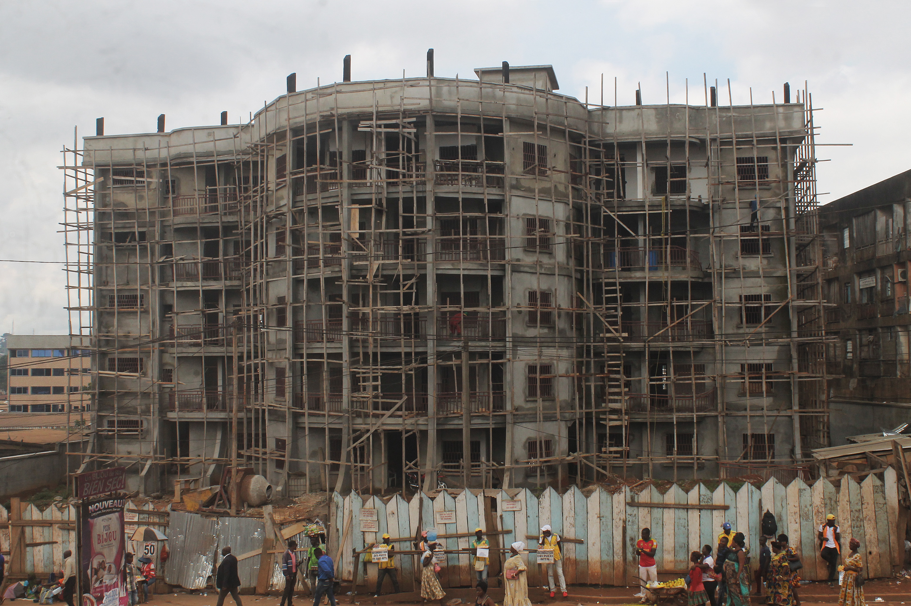 Hotel de Police en construction